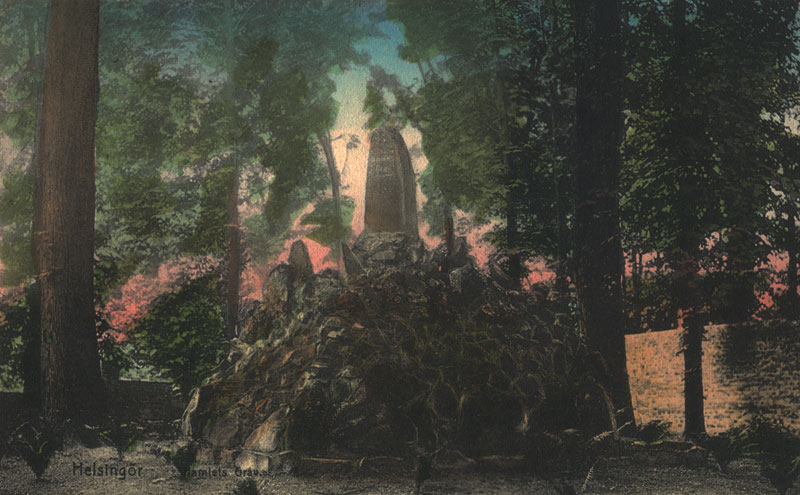 old postcard showing "Hamlet's grave" in Marienlyst park, Helsingør, Denmark. The stone heap was replaced by a granite sarcophagus in 1926.